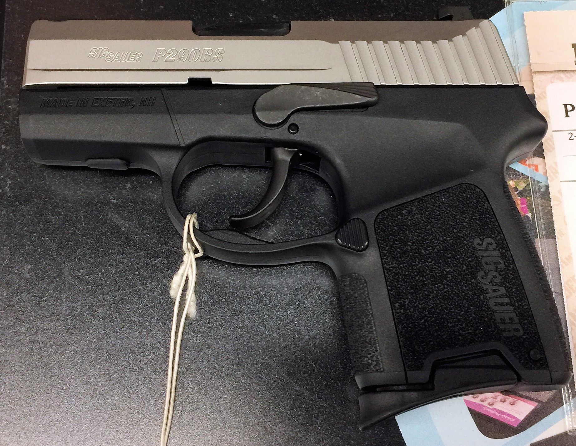 Sig Sauer P290RS, made in Exeter, NH